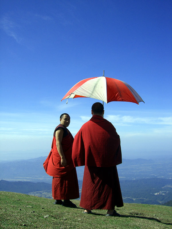 Tibetian monks on a Bir-Billing in the Indian state of Himachal Pradesh